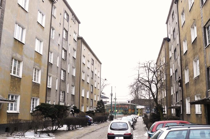 Vesta District Poznan. Interior.